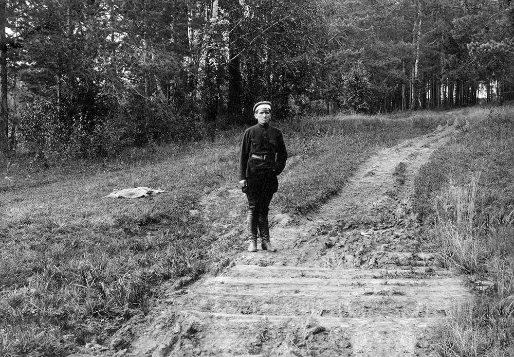 Peter Ermakov at the grave site of Nicholas II, his family and servants on Koptyaki Road.Ermakov wrote the following in the back of the photograph: "I am standing on the grave of the Tsar."